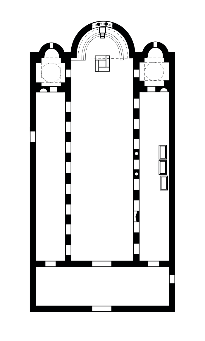 Plan of the Basilica Agios Ahillios on the island of Saint Achilles in the Little Prespa Lake, Greece.